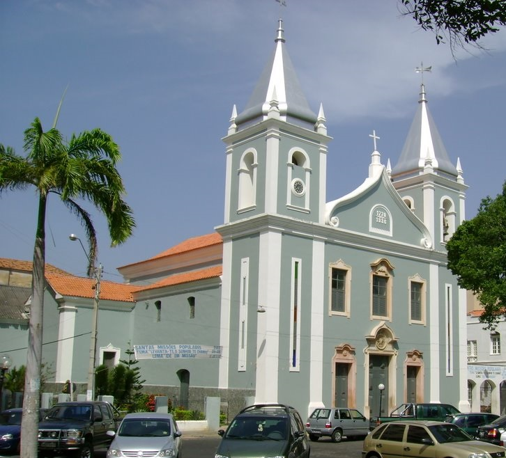 Igreja Catedral diocesana